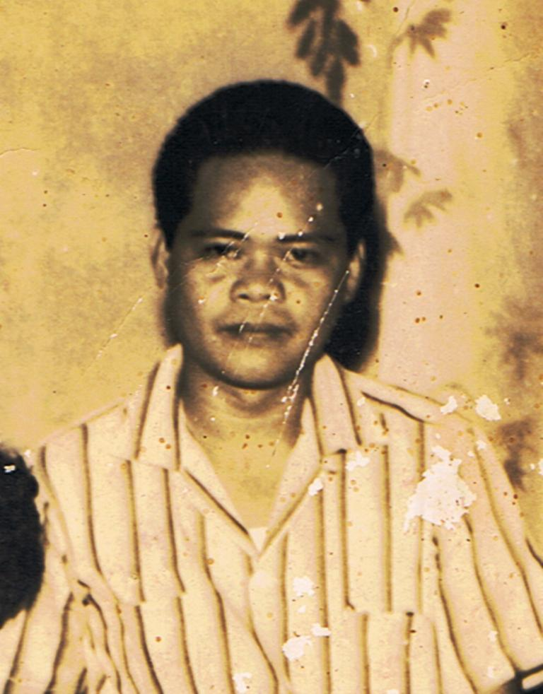 Higino Sr.